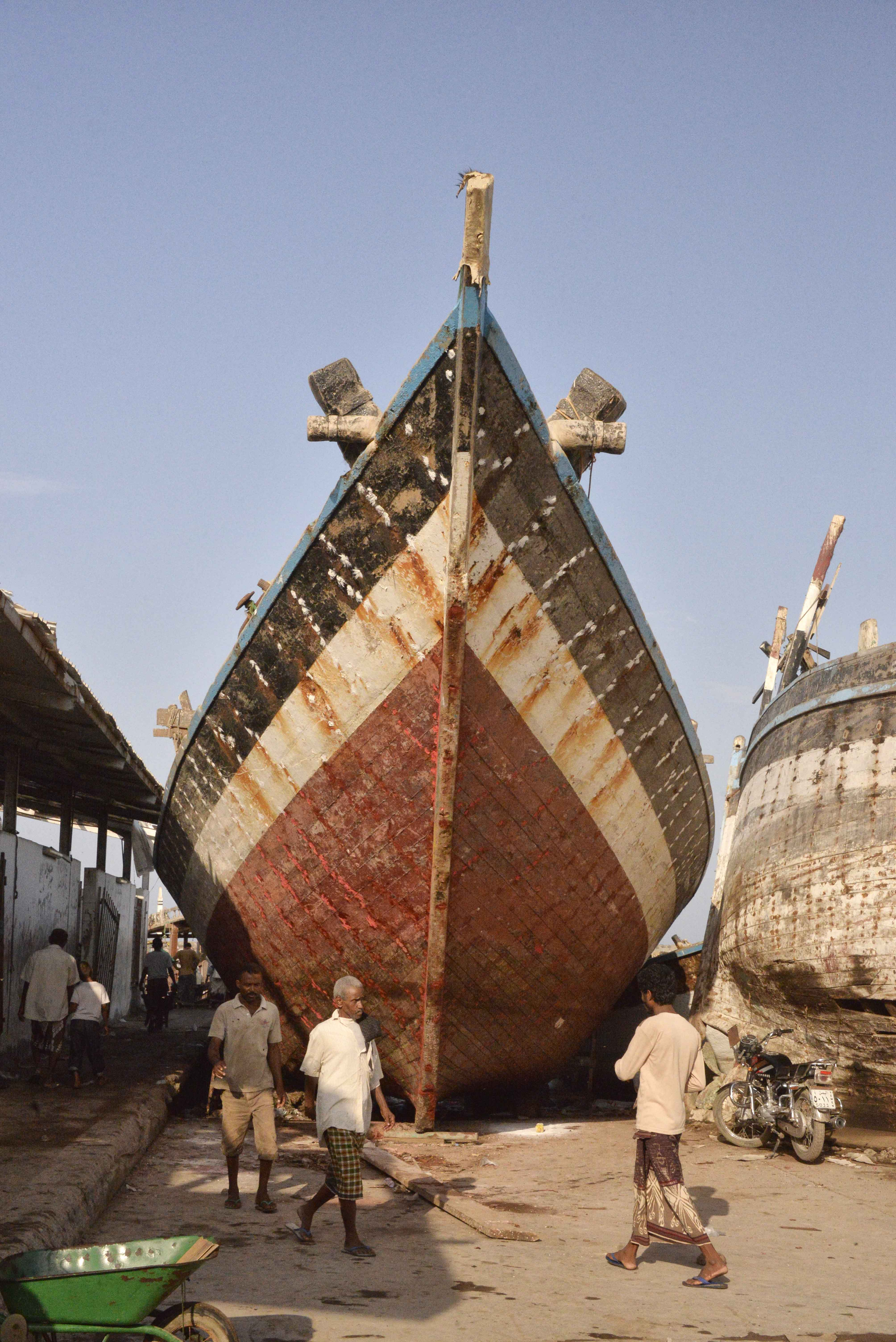 Dry Dock, Yemen